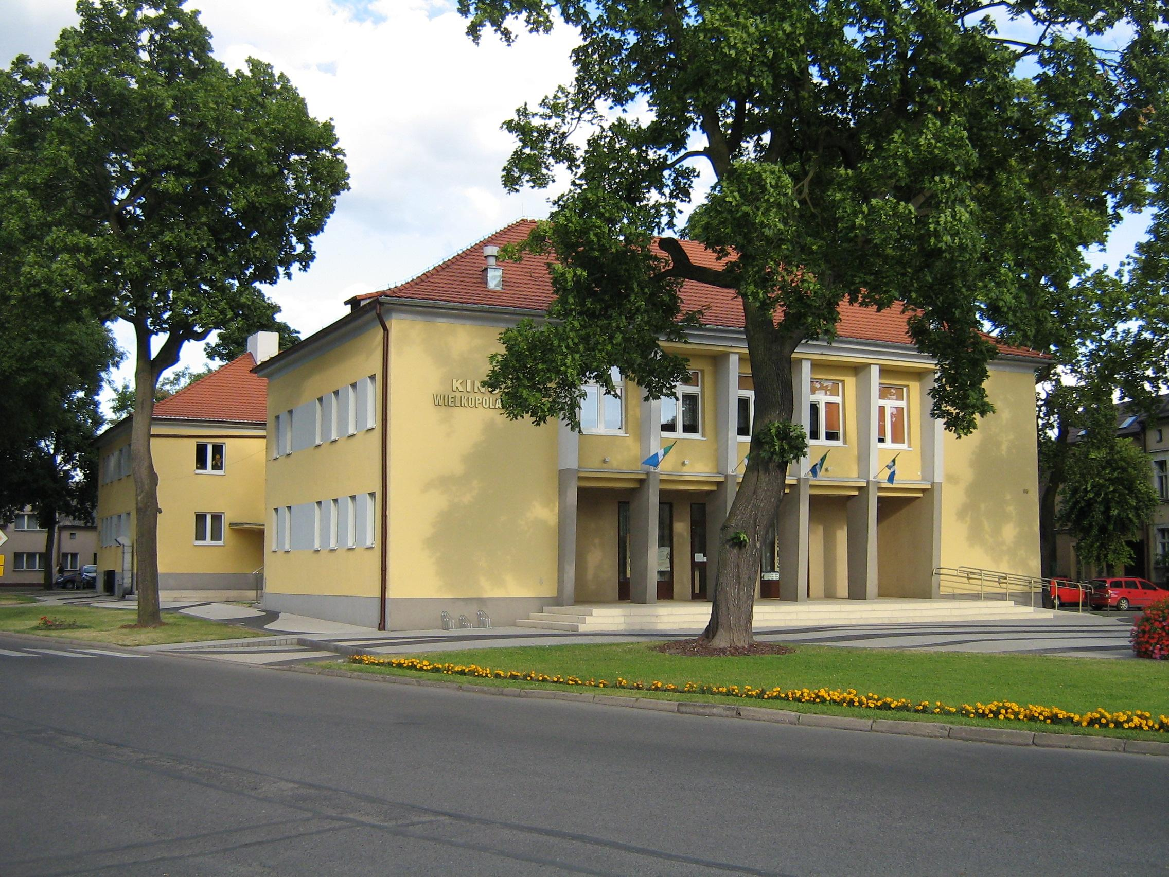 Wielkopolanin cinema in Buk (Poland)